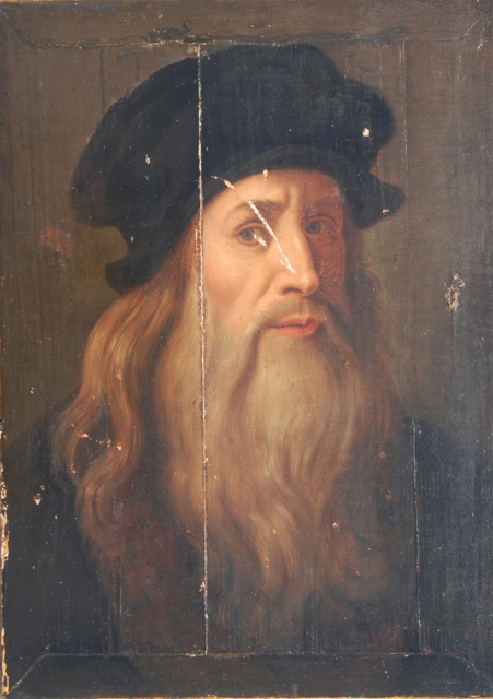 Self-Portrait of Leonardo da Vinci. Believed by some experts to be a self-portrait and therefor the work upon which a numbber of later paintings (such as that in the Uffizi) are based. The attribution is approved by Carlo Pedretti : Leonardo.Immagini di un genio, Carlo Pedretti, Nicola Barbatelli, Peter Hohenstatt; Ed. Champfleury 2012.